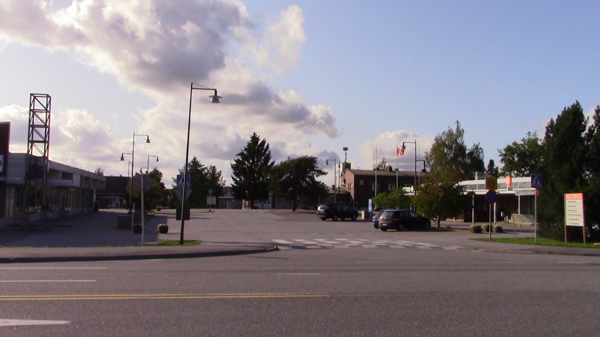 Rusko center and Its local services as seen from Finnish connecting road 2012.